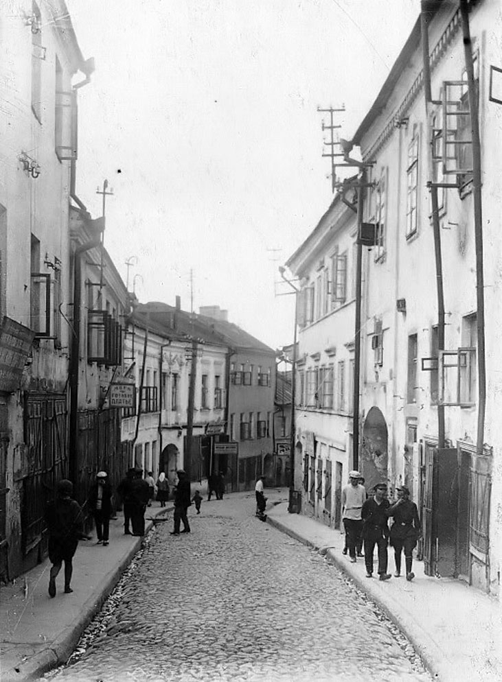 Ciomnyja Kramy in Miensk